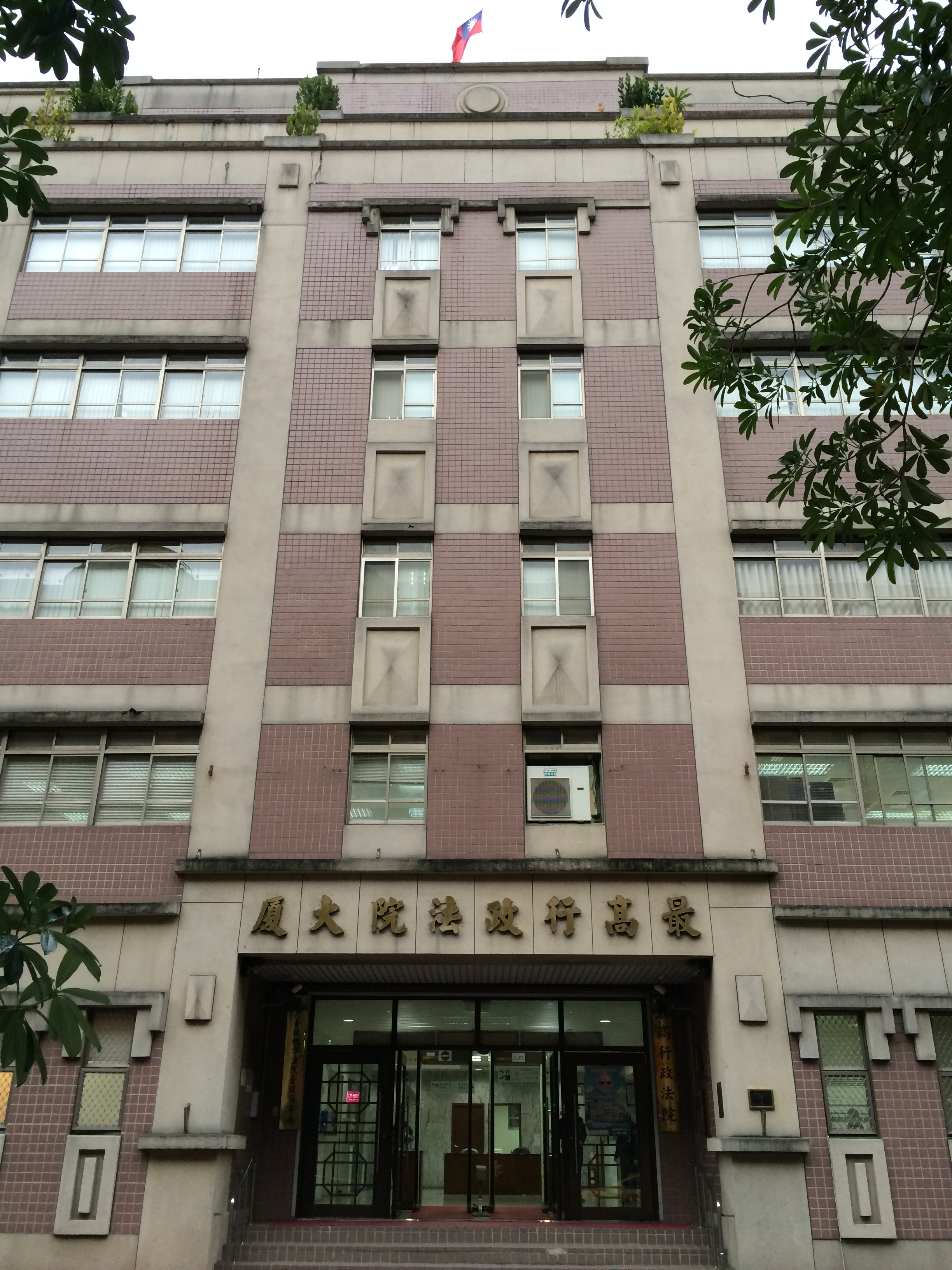 Supreme Administrative Court of the Republic of China